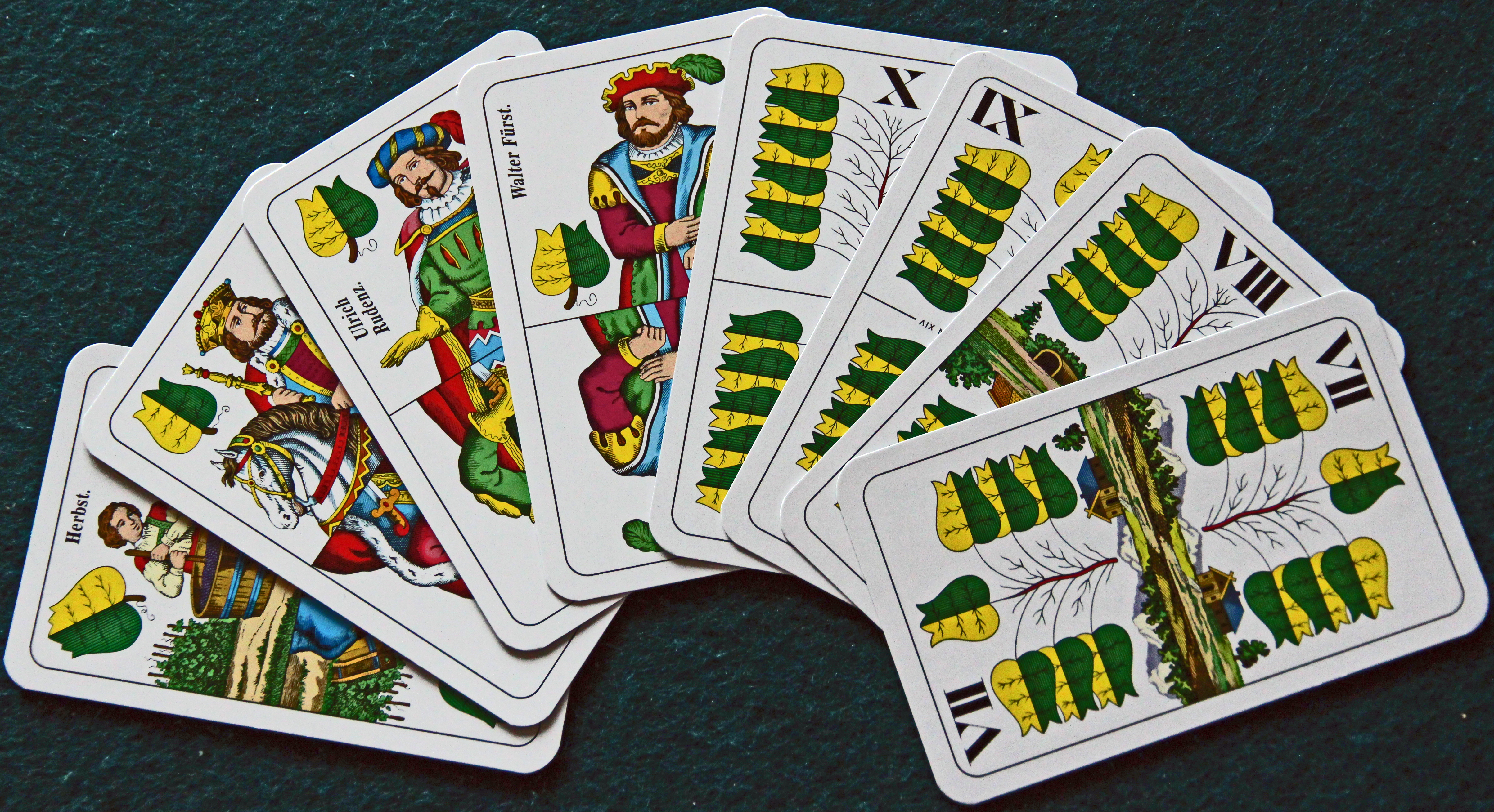 The suit of Leaves in a William Tell pattern German-suited pack The original artist of the card design is József Schneider, 19th century (source: Daily News Hungary: From Germany to Hungary, the story of tell cards, by Gergely Lajtai-Szabó, 15 October 2017).